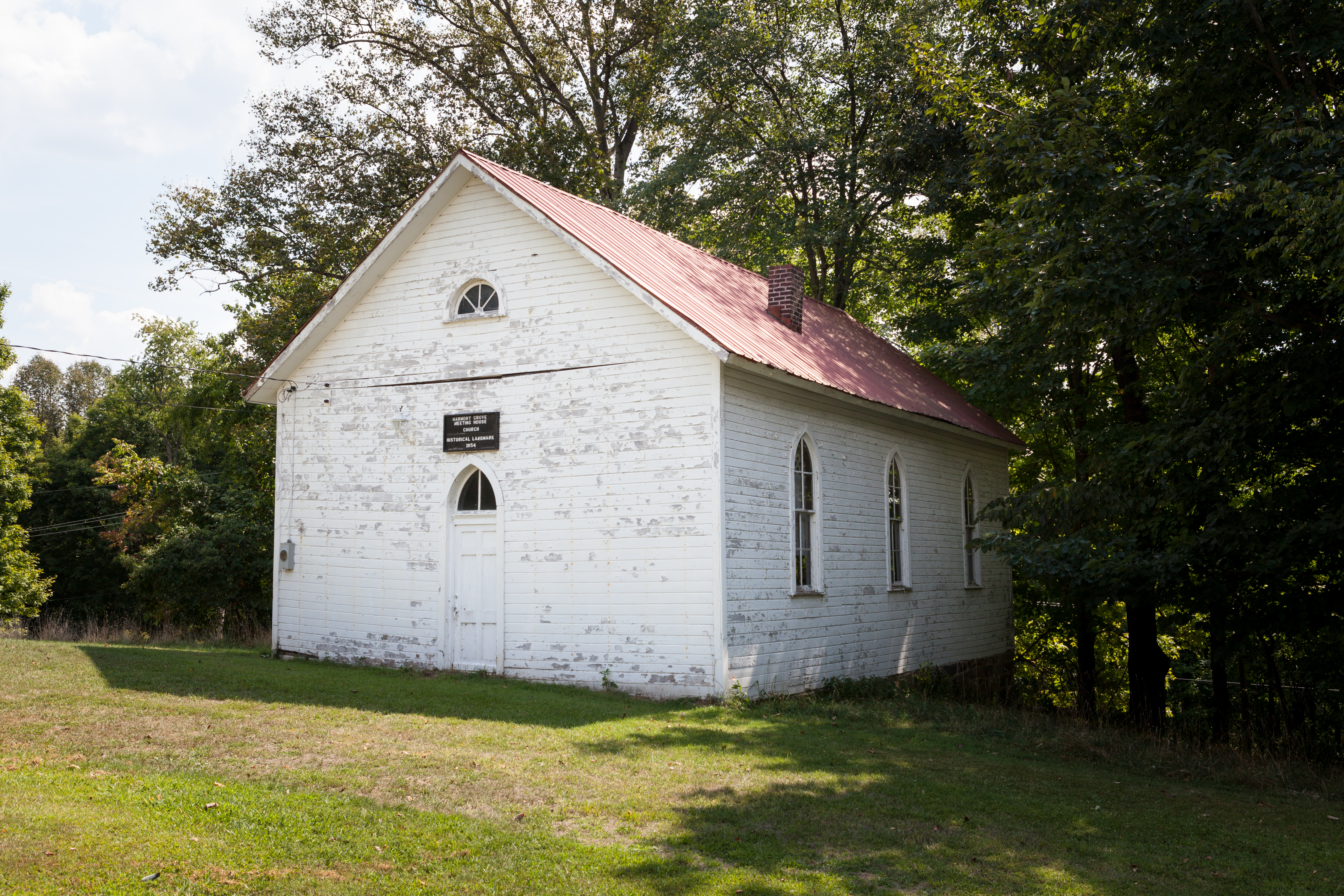 Harmony Grove Meeting House in Harmony Grove, West Virginia. Built (c. 1854) it is the oldest unaltered church building (but not the oldest congregation) in Monongalia County. Looking southeast at the front and side of the building.